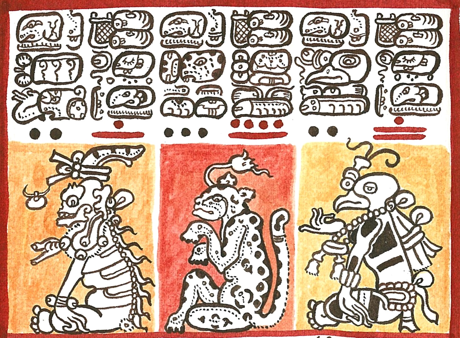 detail of Codex Dresdensis drawn by Lacambalam.